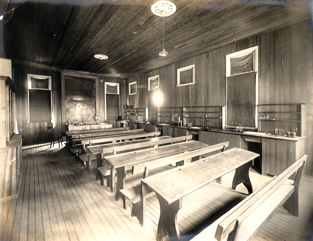 Ipswich Girls Grammar School, classroom, 1925